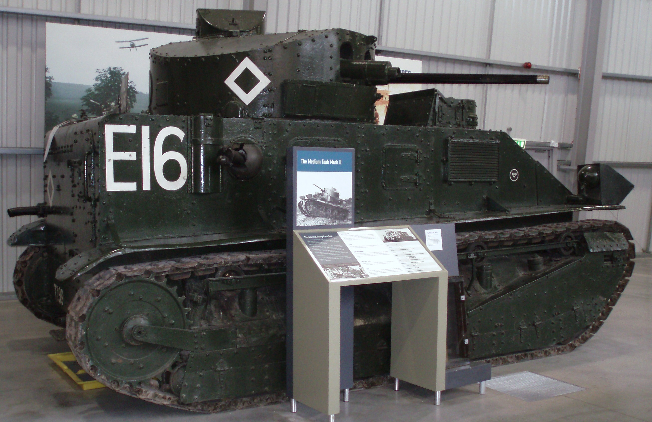 Bovington Tank Museum 038